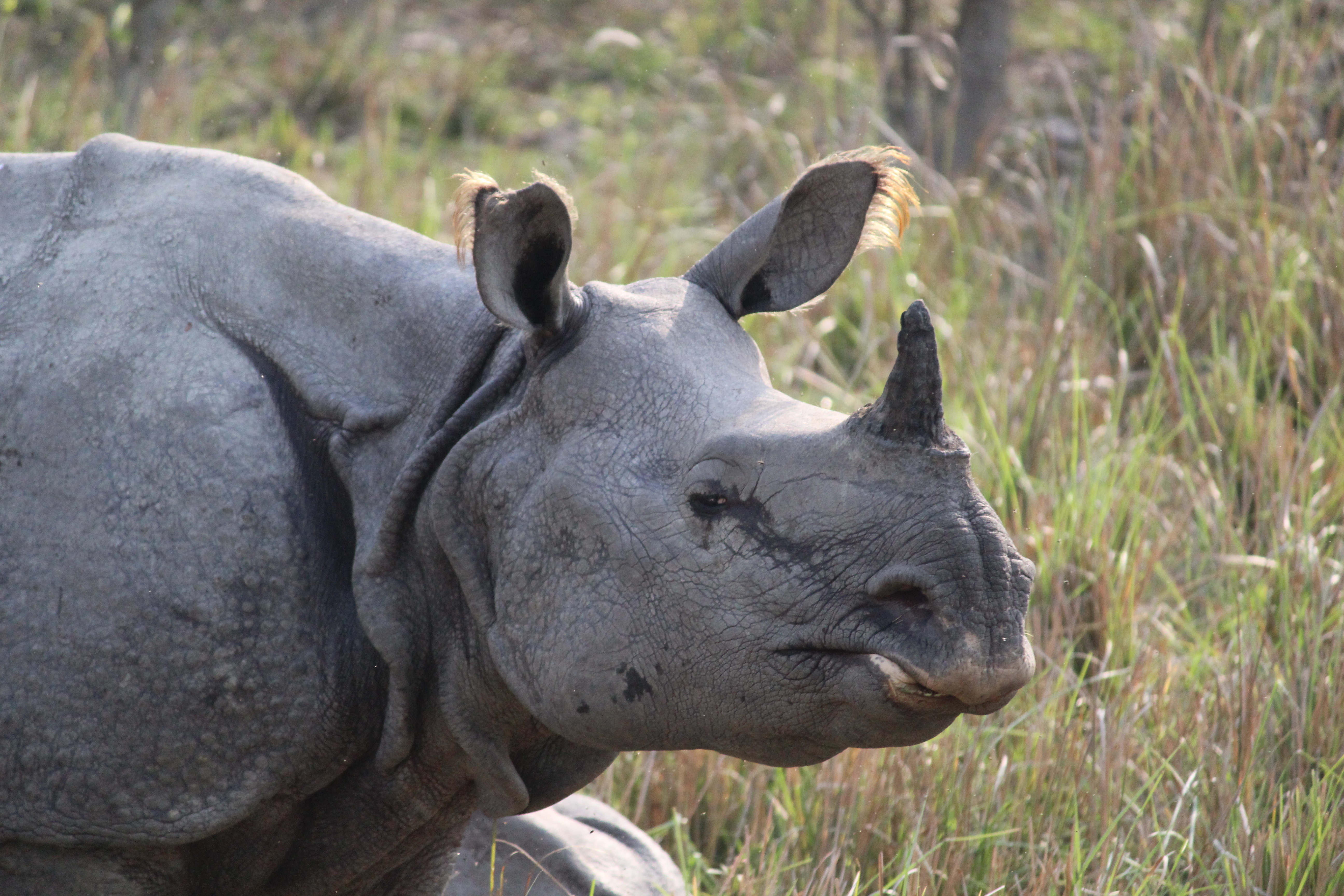 rhinoceros